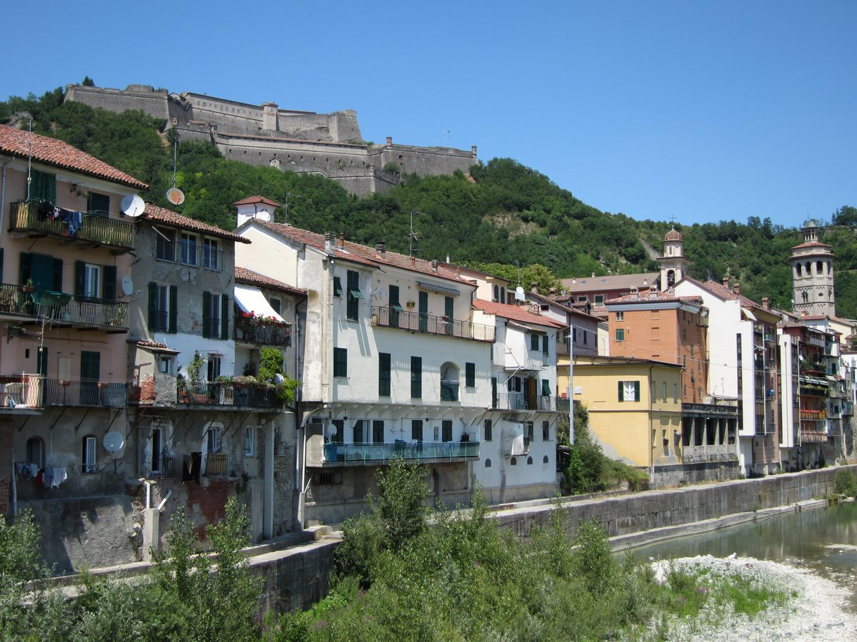 This shows the town of Gavi (Italy) with its citadel